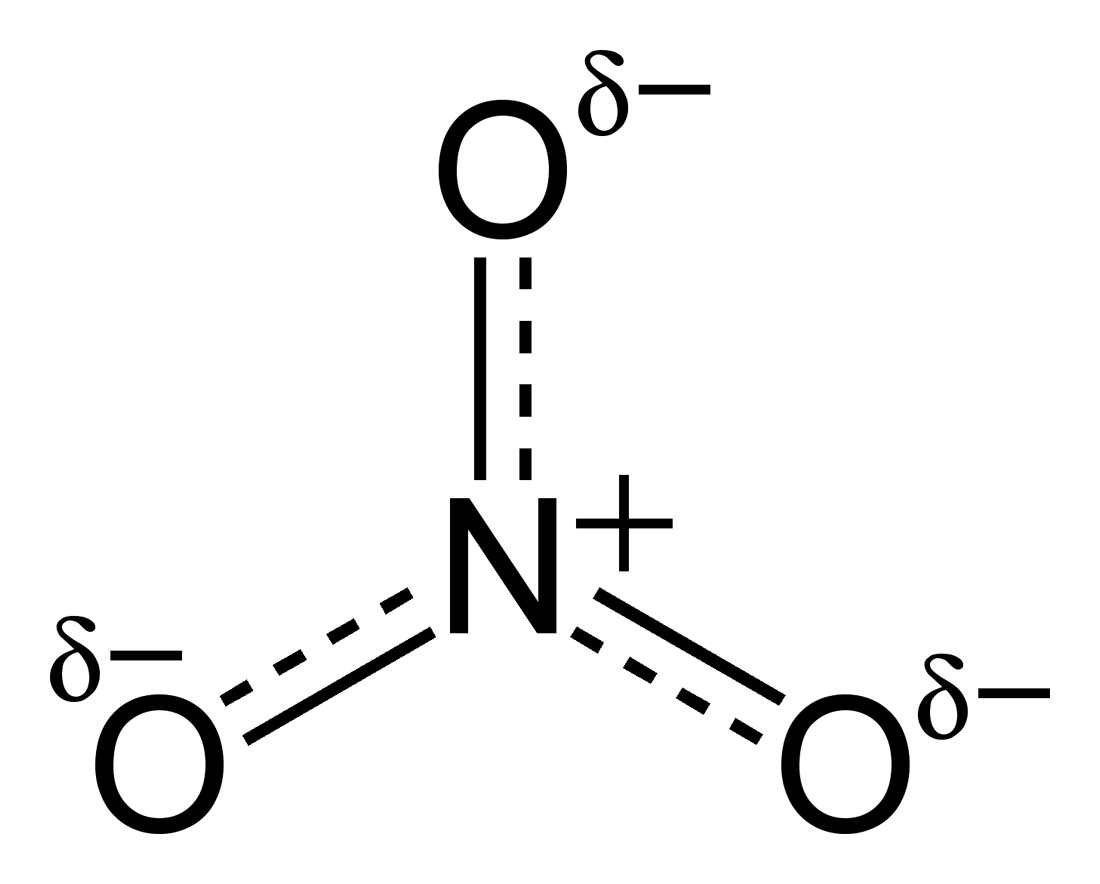 Structure and bonding in the nitrate ion, NO3−, including partial negative charges on the oxygen atoms, labelled δ−